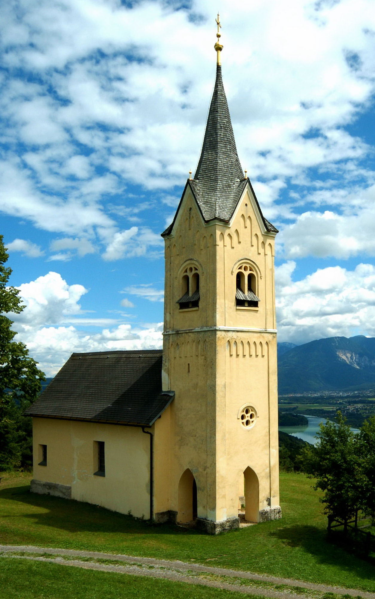 Subsidiary church Saint Margaret in the community of Koettmannsdorf, district of Klagenfurt Land, Carinthia, Austria